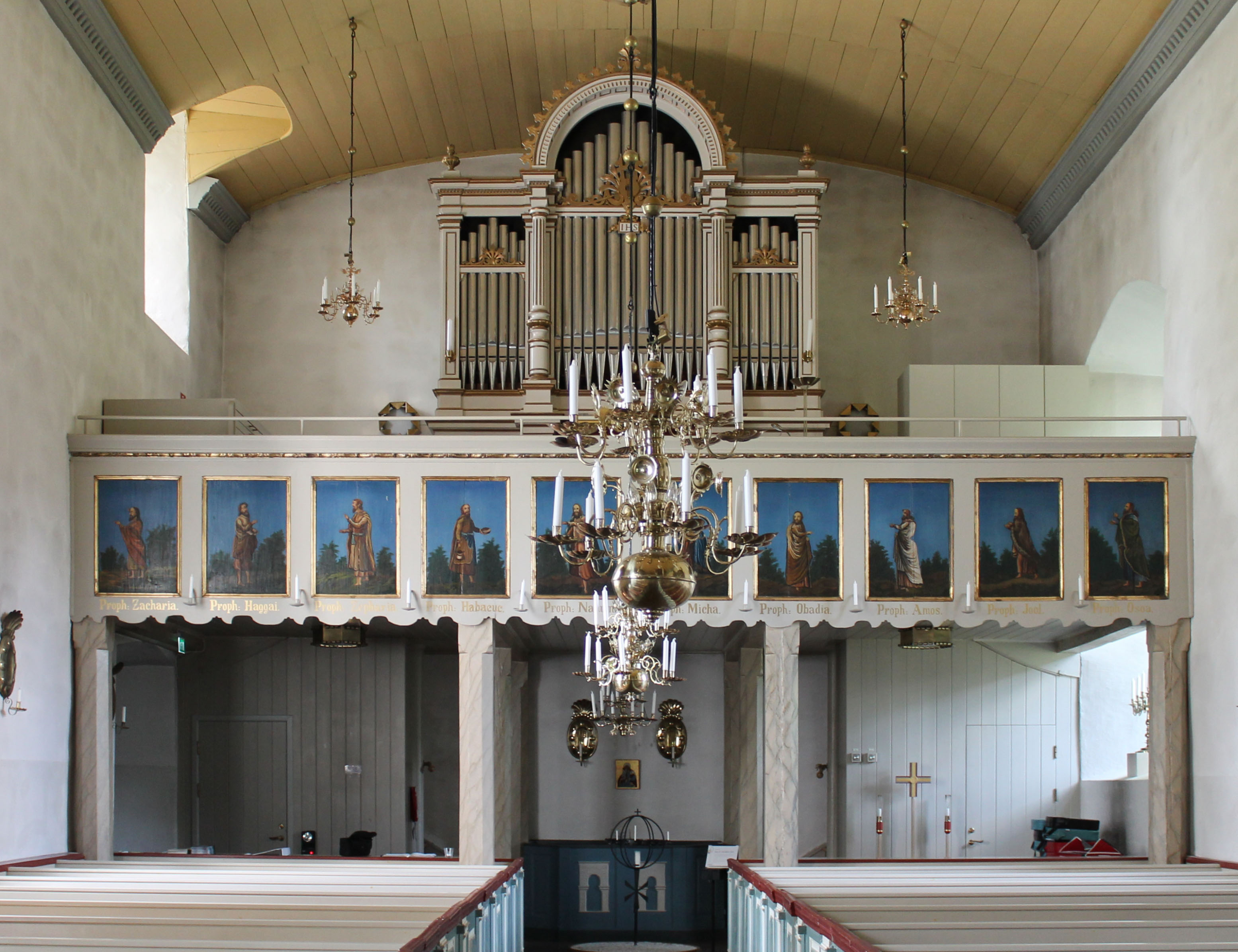 Dörby Church. The organ loft with Prophet pictures painted during the 18th century and organ with Helgo Zetterwalls facade.